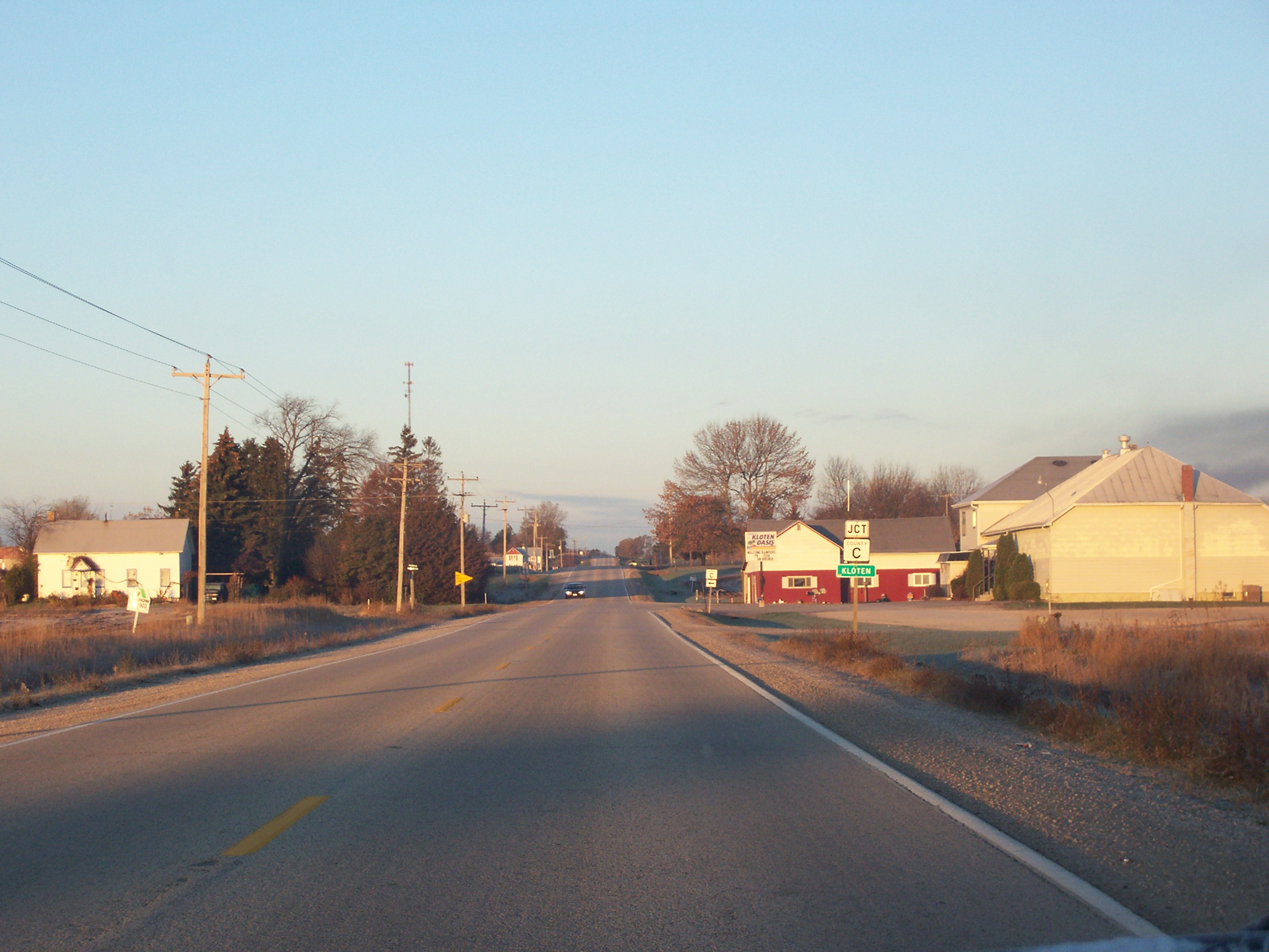 Looking west at all 5 houses and the wedding reception hall in Kloten, Wisconsin, USA, in the early morning. Taken October 25 2006 by myself.